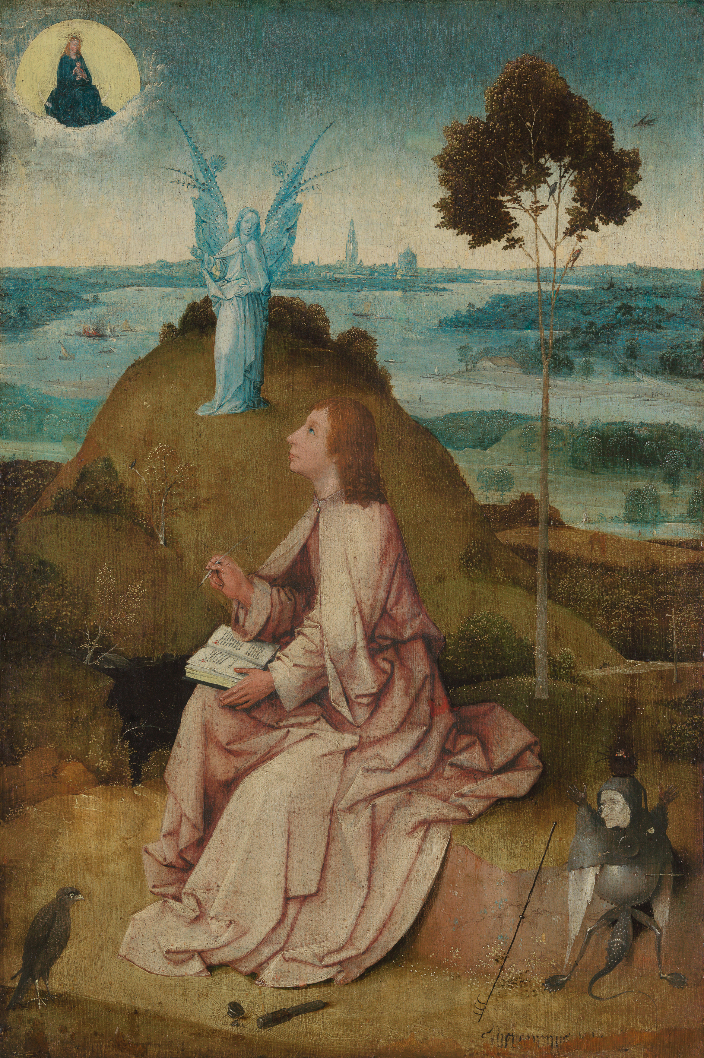 Front of a two-sided painting. For the reverse, see File:Jheronimus Bosch Scenes from the Passion (full).jpg.